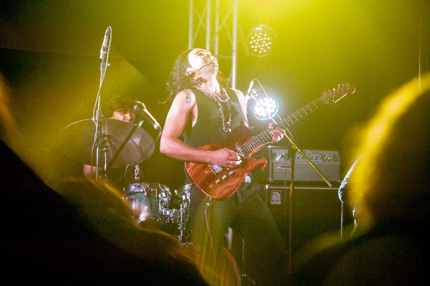 Arli Liberman at the Titirangi Festival of Music, New Zealand 2014.